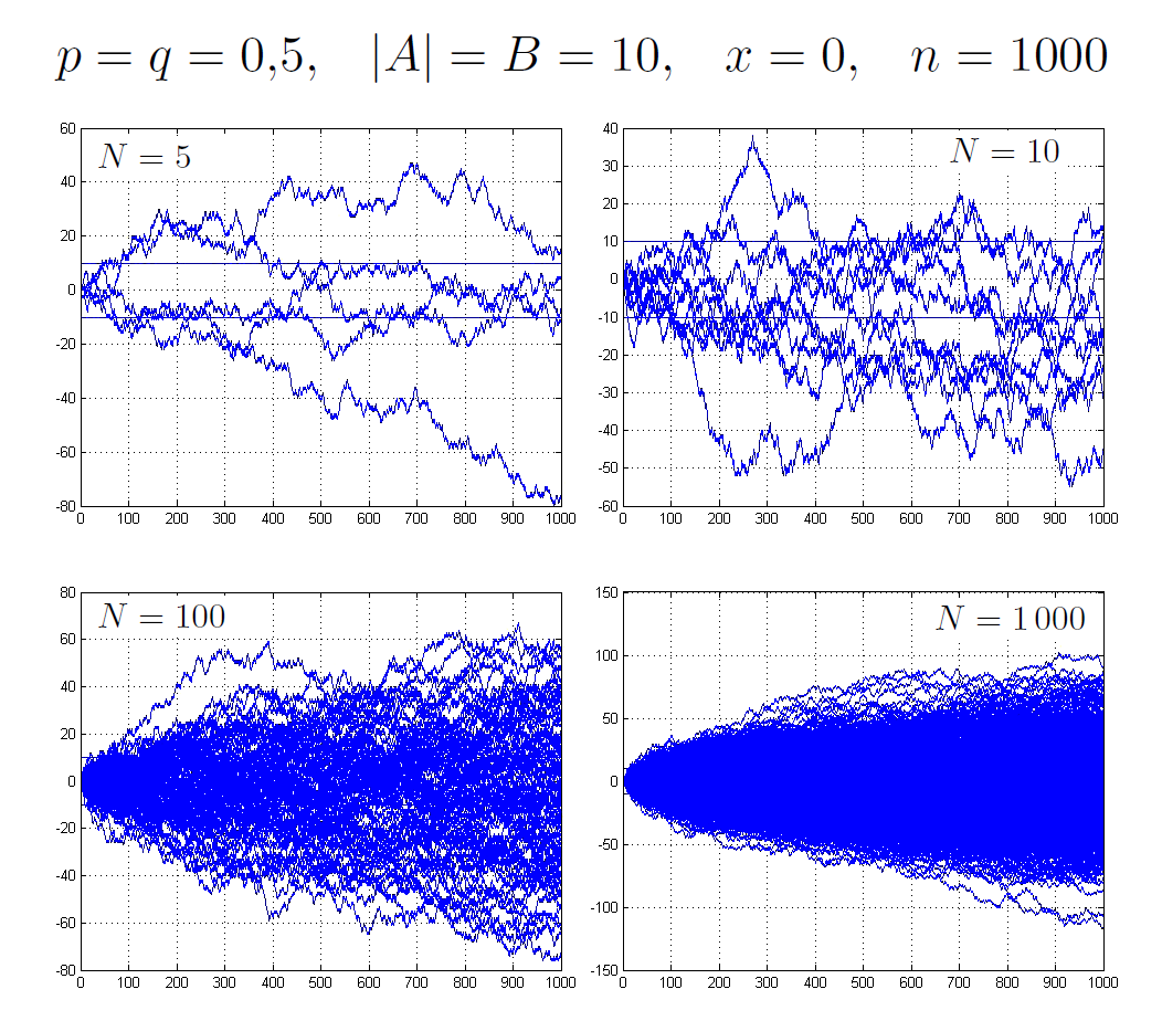 4 examples of a random walk in MATLAB 2010.